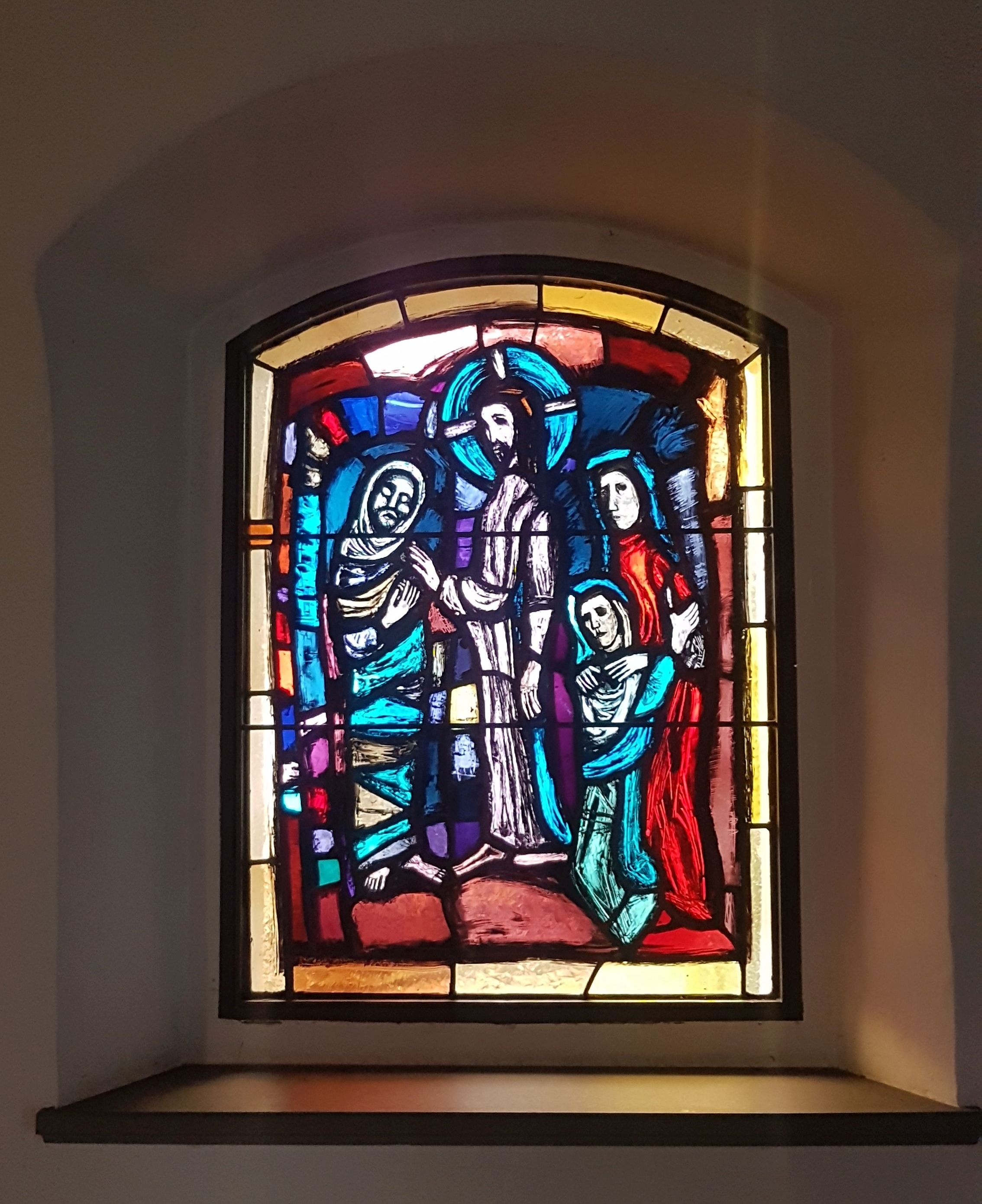 The chapel Sankt Wendelin in Frastanz (Vorarlberg, Austria) is used as a "chapel of rest". The 15th century chapel was renewed after the Battle of Frastanz. In a facade niche is a figure hl. Johann Nepomuk from the 18th century. Glass painting by Martin Häusle from 1963. Stained glass windows.